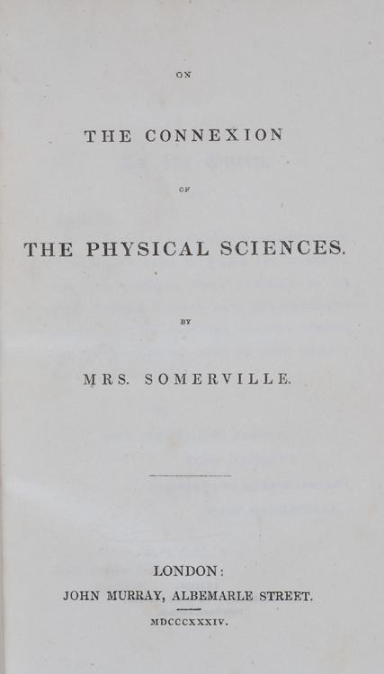 Title page of On the connexion of the physical sciences / by Mrs. Somerville (London : J. Murray, 1834)